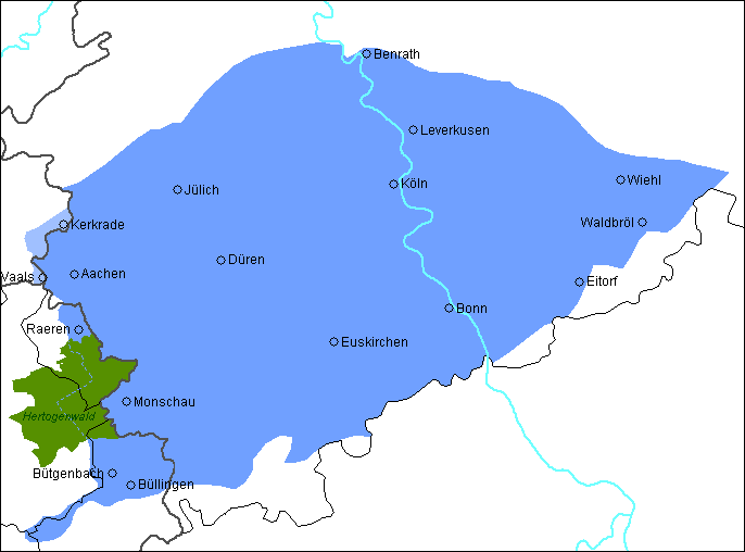 Blue: Area where Ripuarian dialects are spoken. In light blue the area in the Netherlands where a dialect with the same features is spoken. In green the sparsely populated Hertogenwald forest in Belgium, where no dialect boundary can be marked.